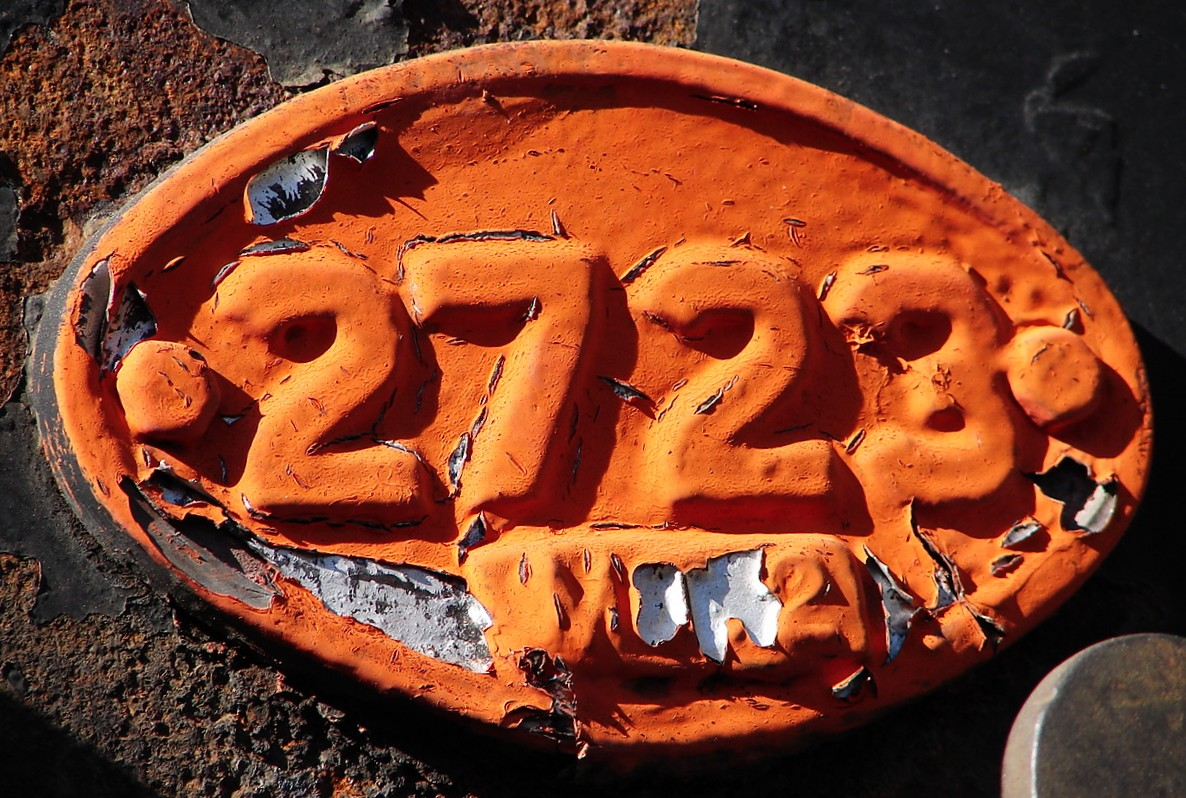 Type MT2 tender plate ex Class 19D no. 2723 on Class 15AR no. 1850